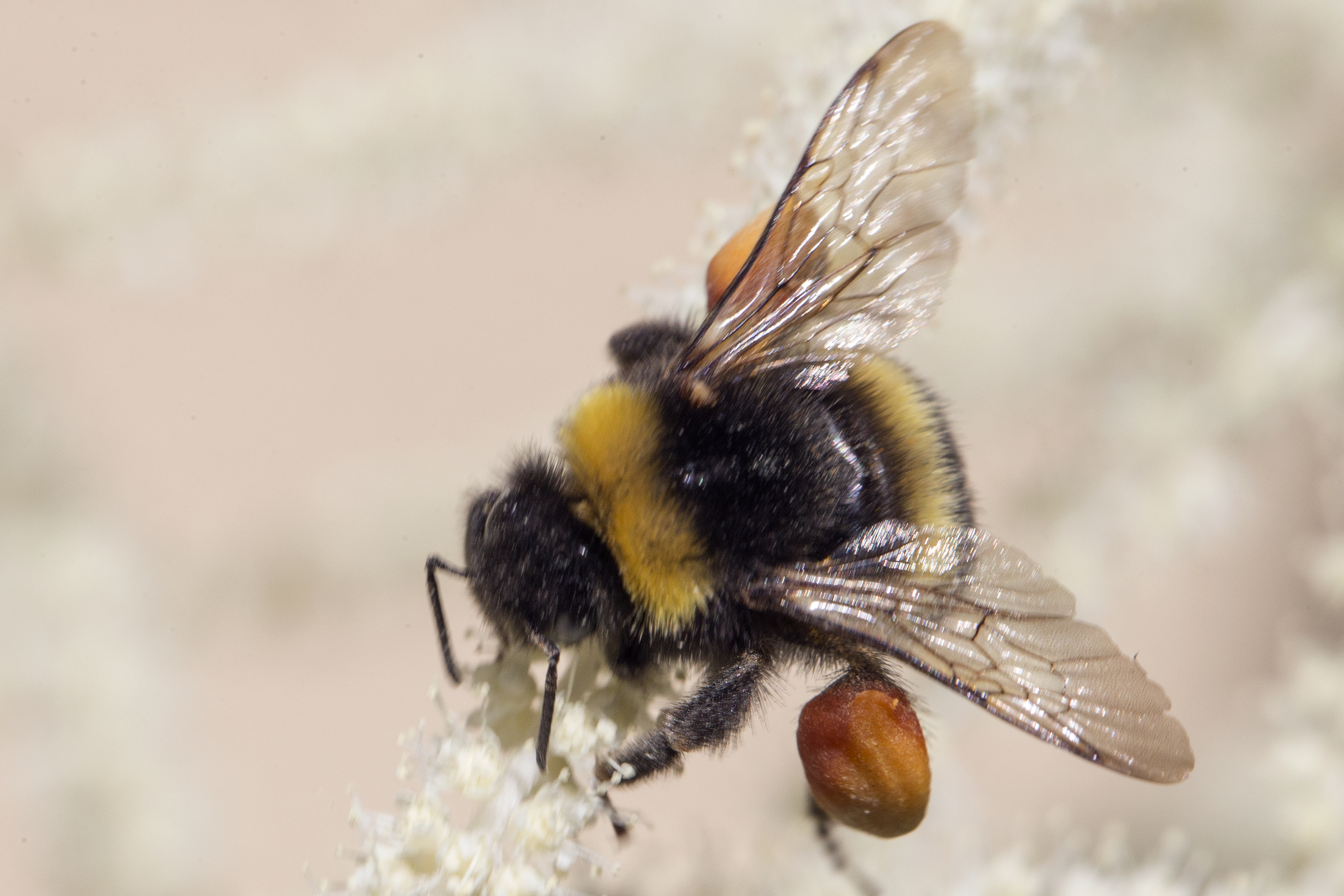 White-taled bumblebee (Bombus lucorum), Lodz (Poland)